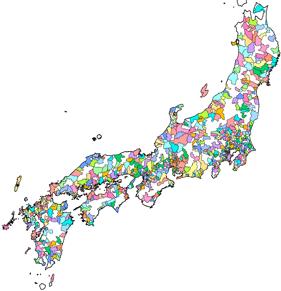 Map of the cities ('shi') of Japan. Created by Rarelibra 13:52, 1 August 2007 (UTC) for public domain use, using MapInfo Professional v8.5 and various mapping resources.